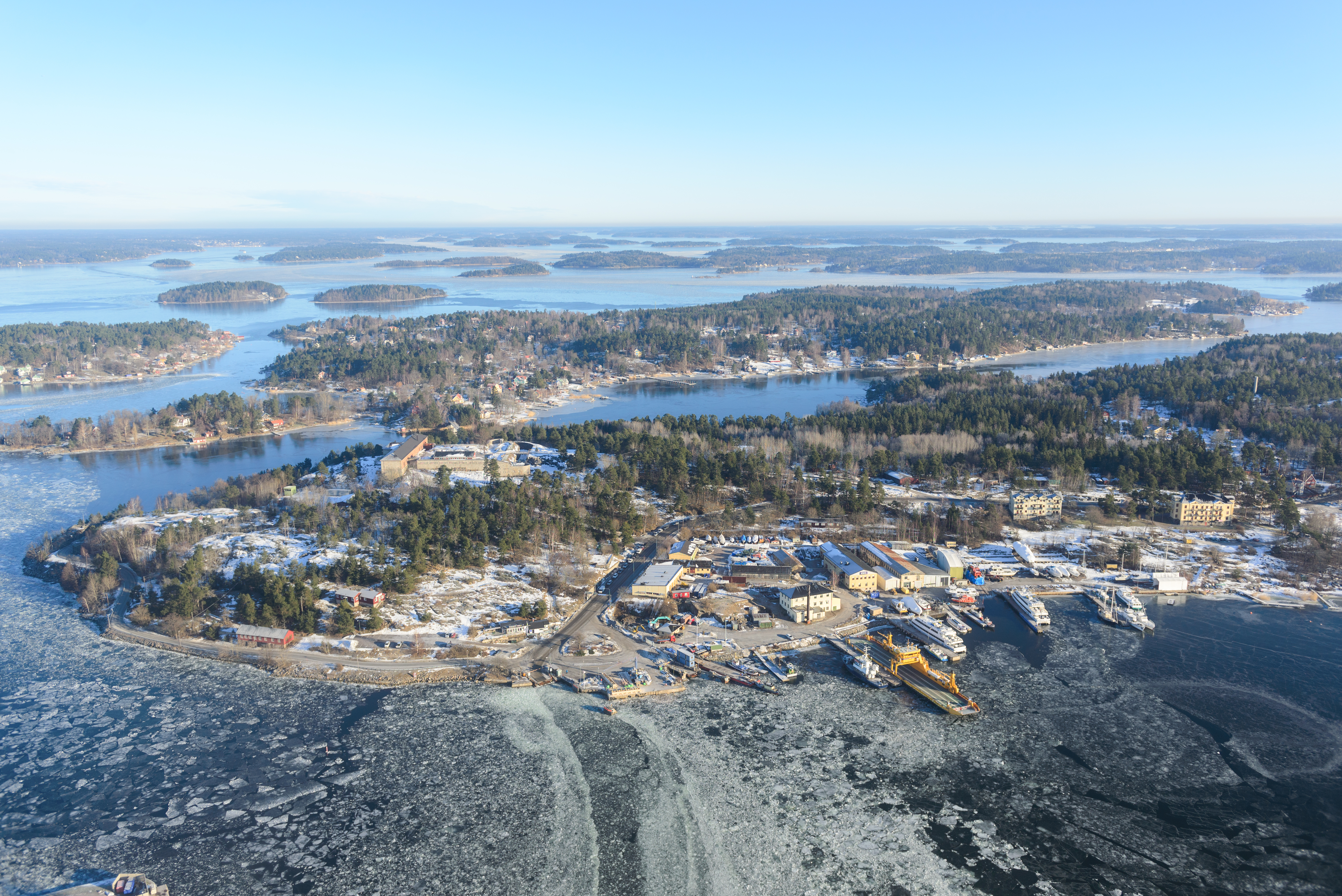 Rindö